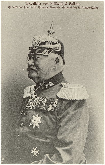 German General v. Prittwitz und Gaffron